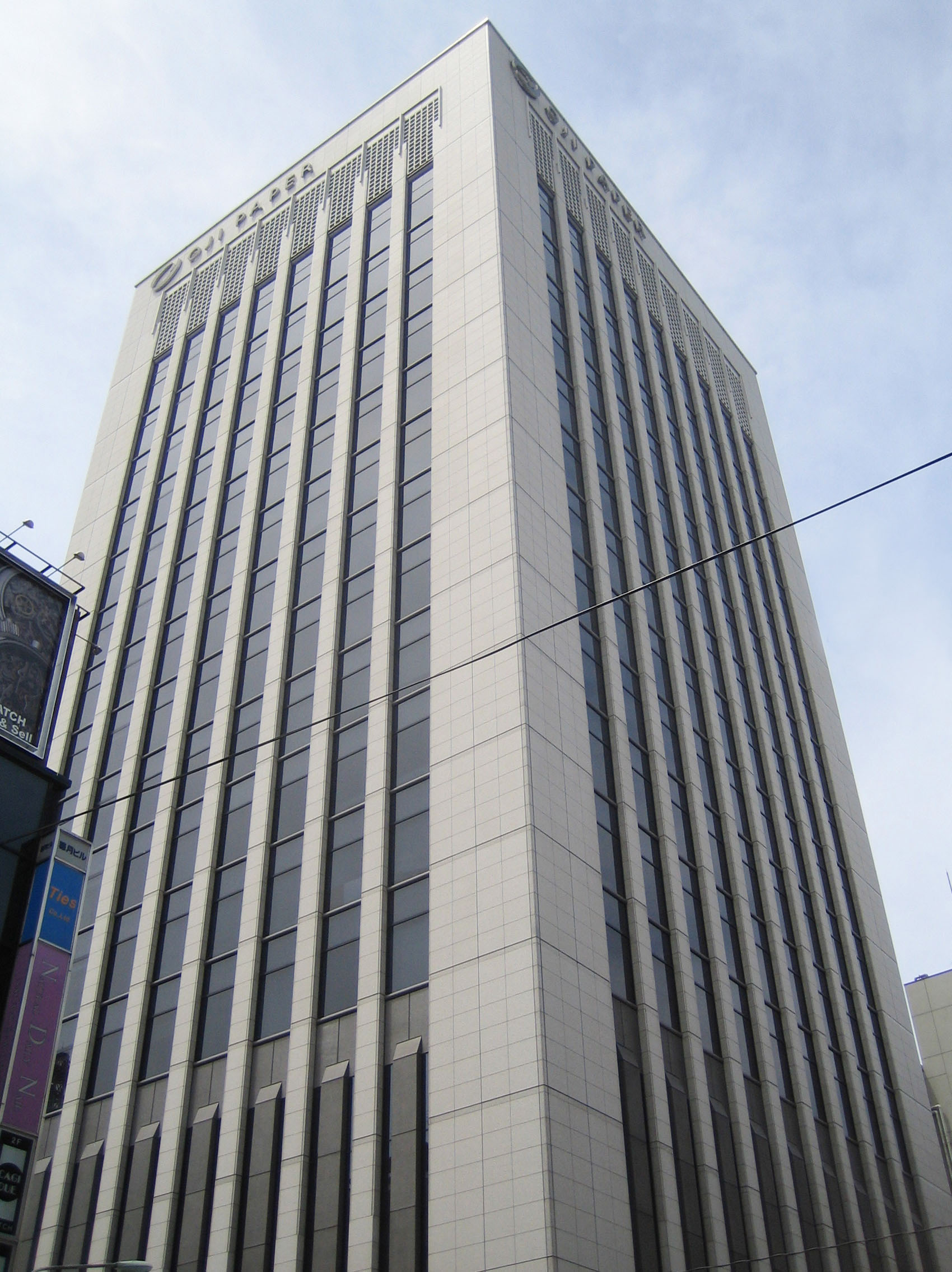 The headquarters of Oji Paper Co., Ltd. (王子製紙 Ōji Seishi), in Chuo, Tokyo, Japan